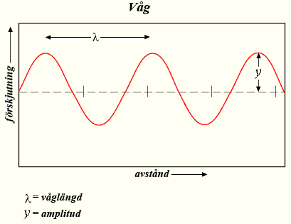 moved over from meta Translated versions: * Hebrew